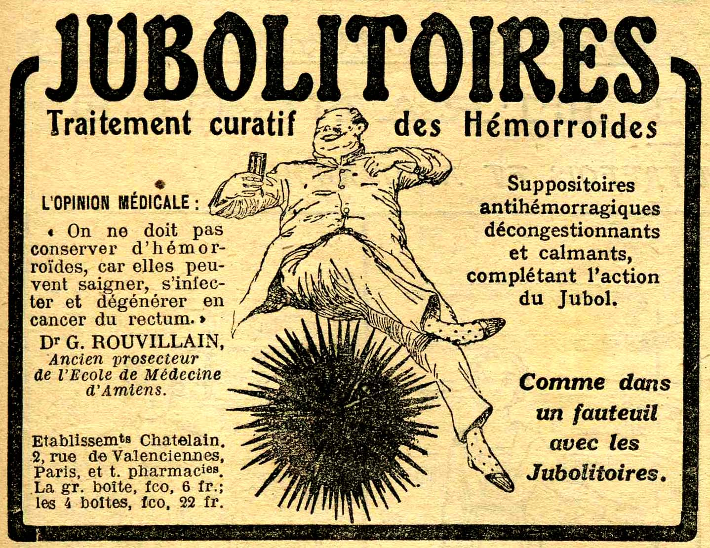 1918 advertisement for Jubolitoires (hemorrhoids)